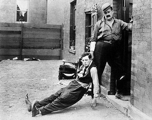 Buster Keaton (left) and Joe Roberts in the movie Neighbors (1920)